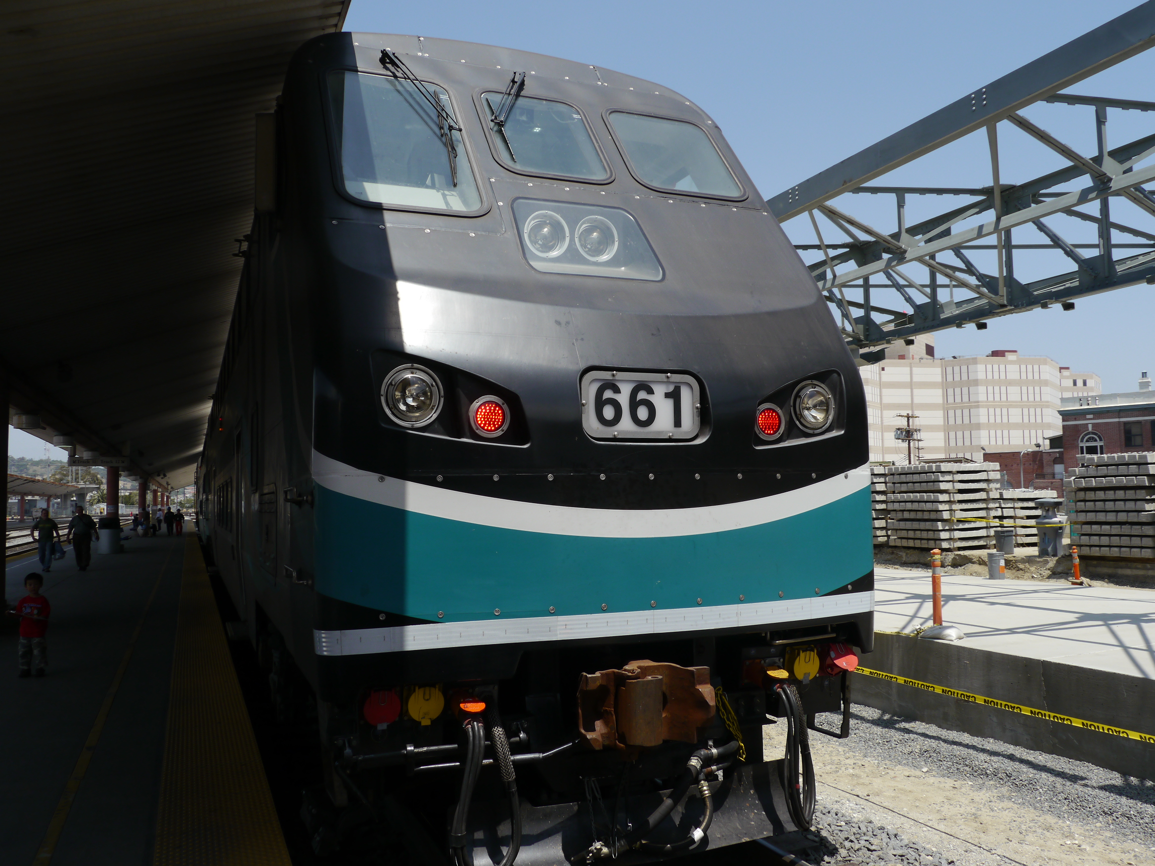 661, National Train Day, Los Angeles Union Station.